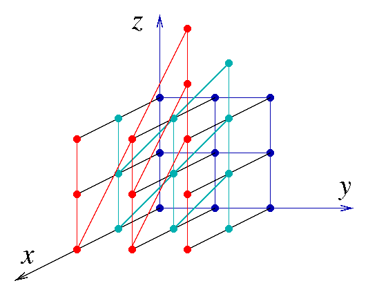 A sketch of a standard Cayley graph of the discrete Heisenberg group.